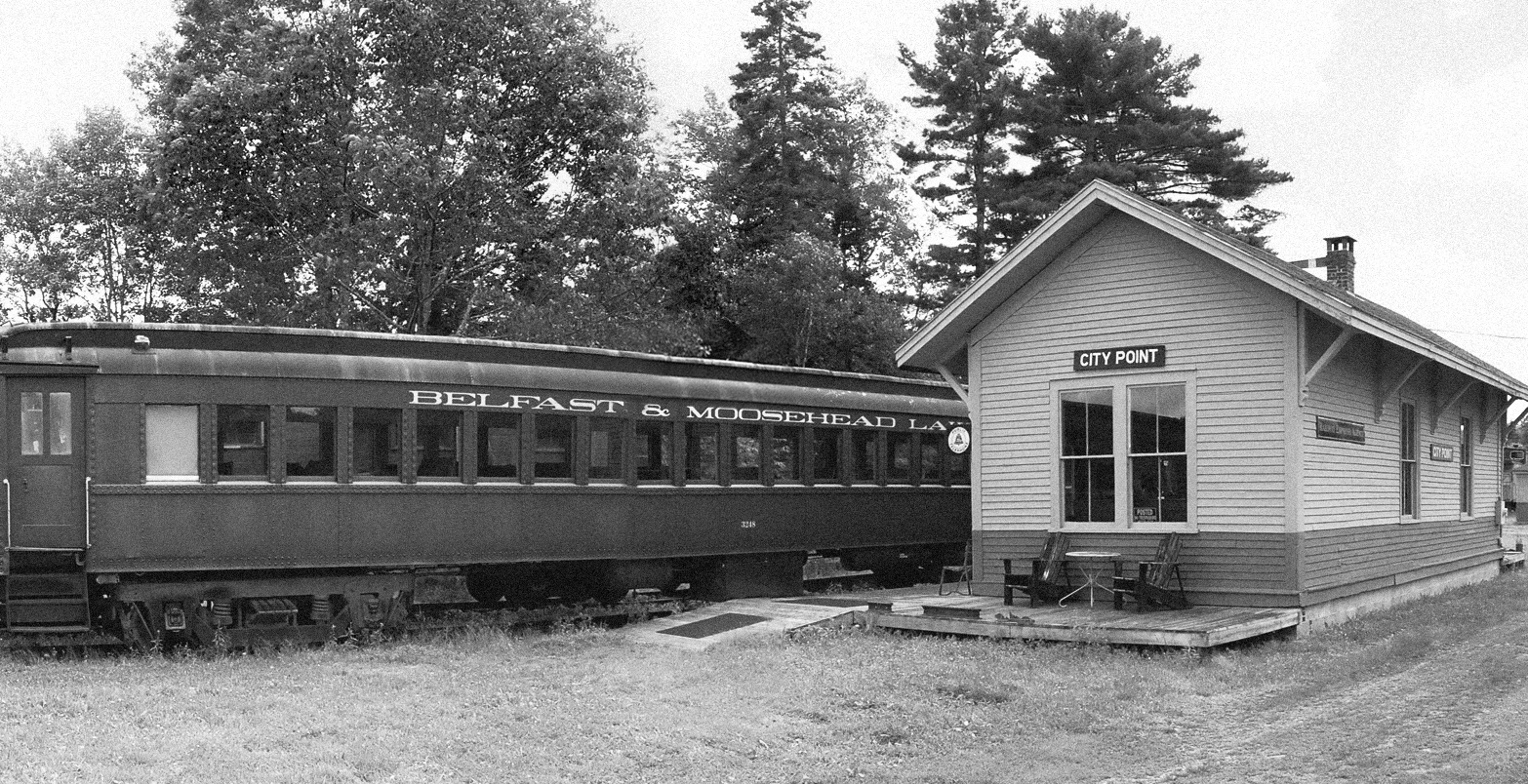 Belfast & Moosehead Lake Railway #3248, a 1926 vintage chair car (coach) at the City Point Central Railroad Museum, Belfast, Maine